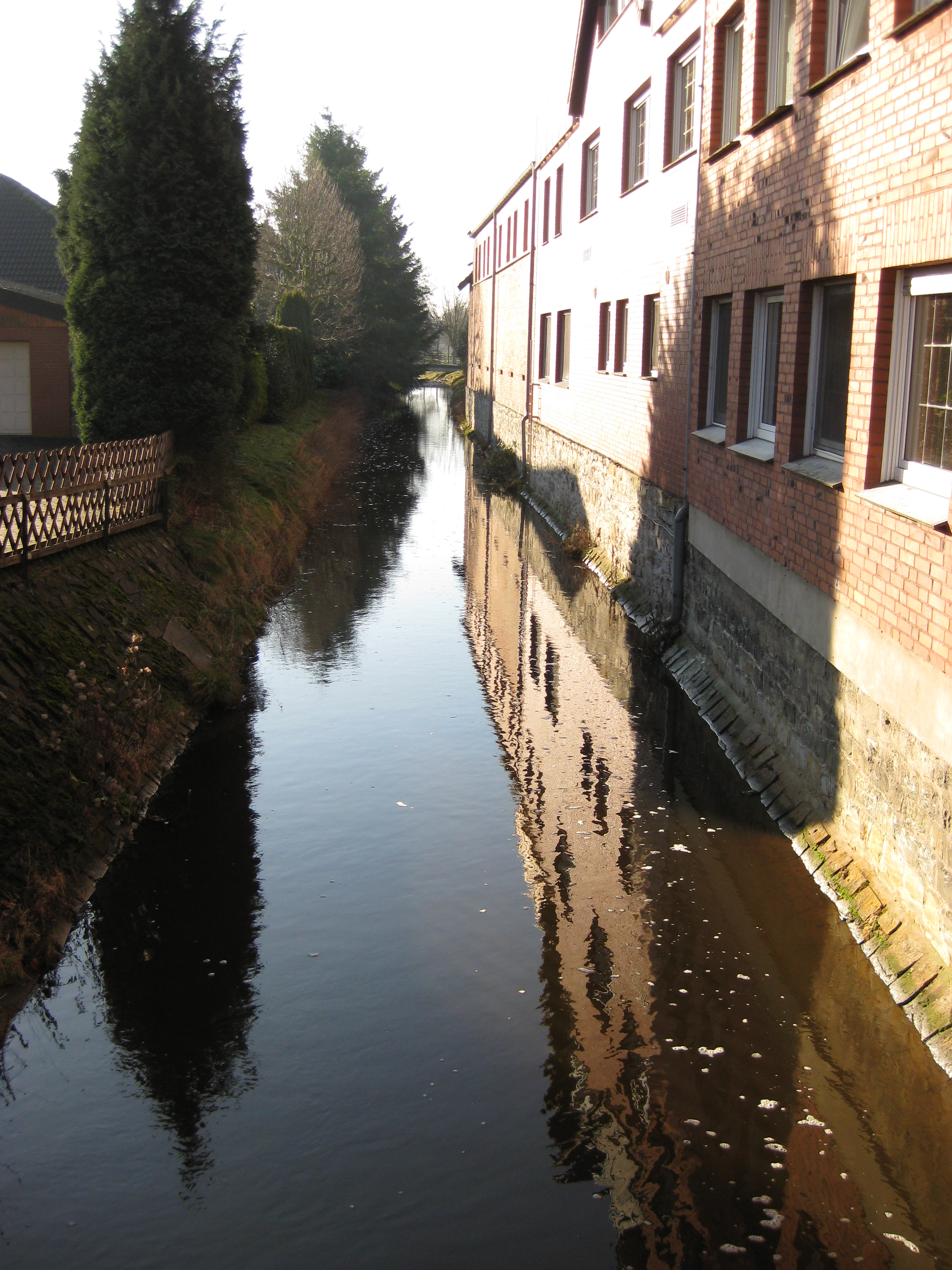 Loddenbach in Harsewinkel-Greffen